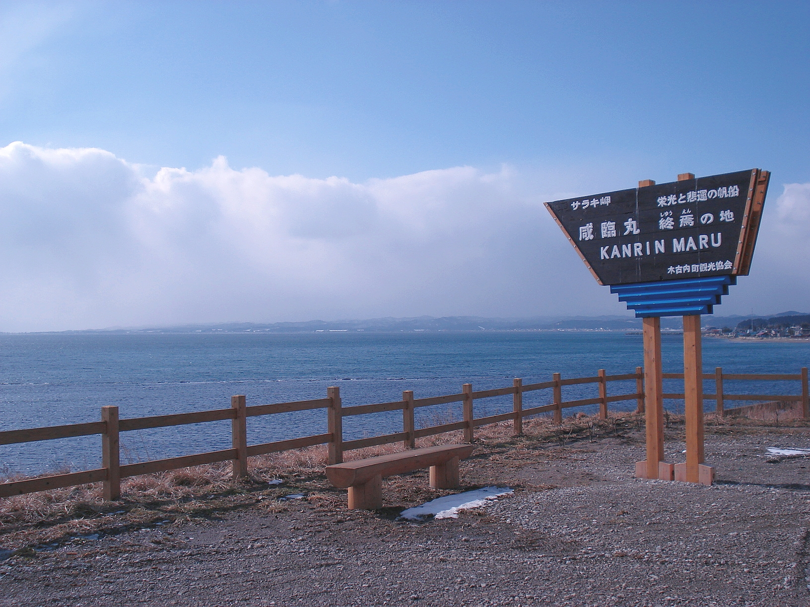 The signboard that shows place where Kanrinmaru sinks, in Sraki Point